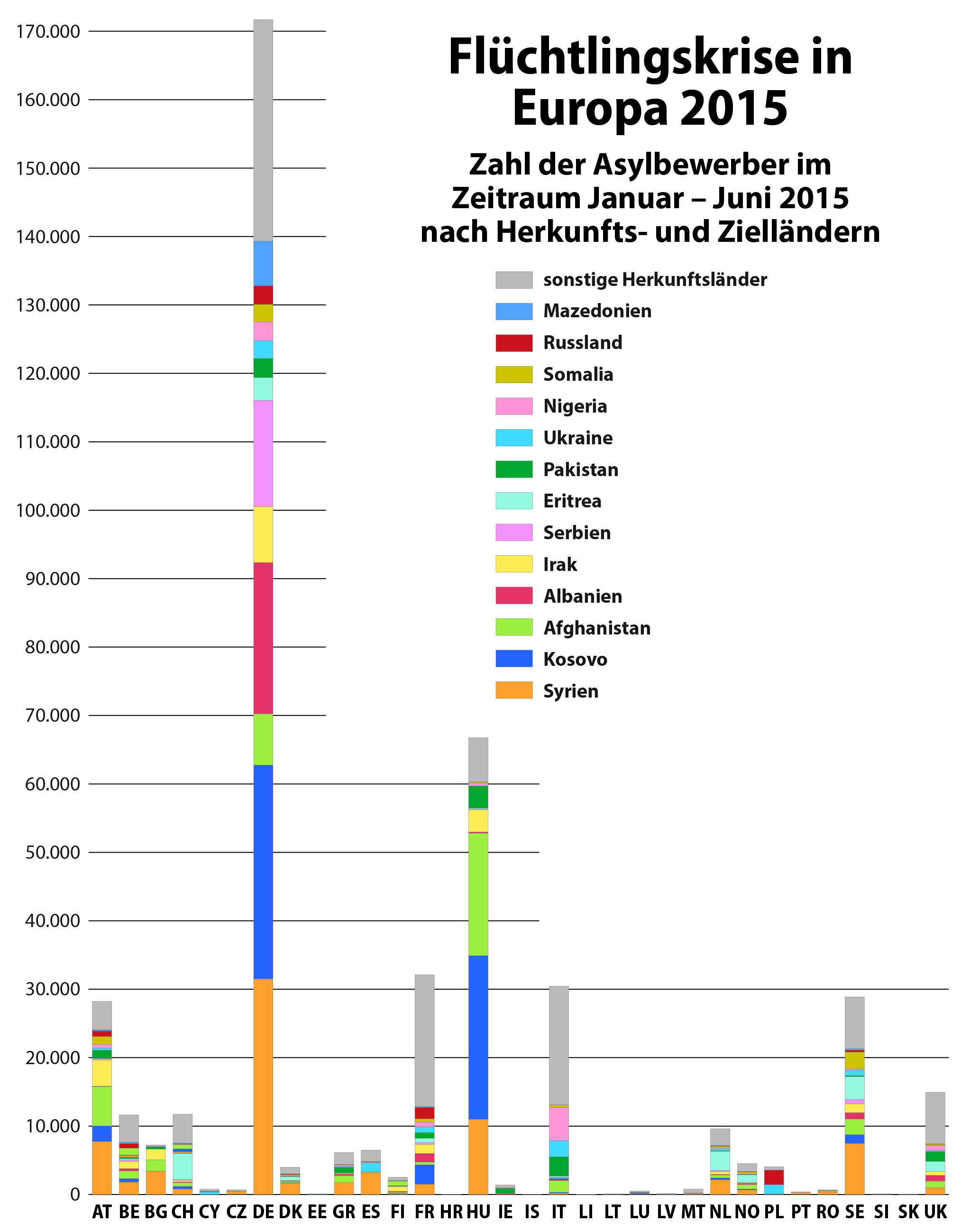 European migrant crisis 2015. Asylum applicants in Europe between 1 January and 30 June 2015 by source and destination countries (Cyprus: between 1 January and 31 May 2015)